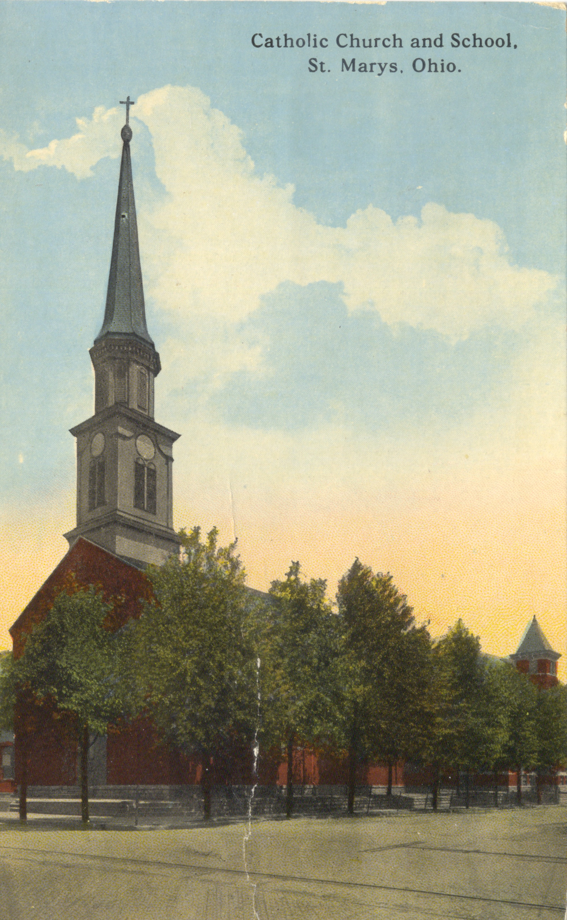 Persistent URL: Subject: Catholic churches; churches; religion; steeples; religious education; Ohio--St. Marys; miami digital collections; bowden postcard collection